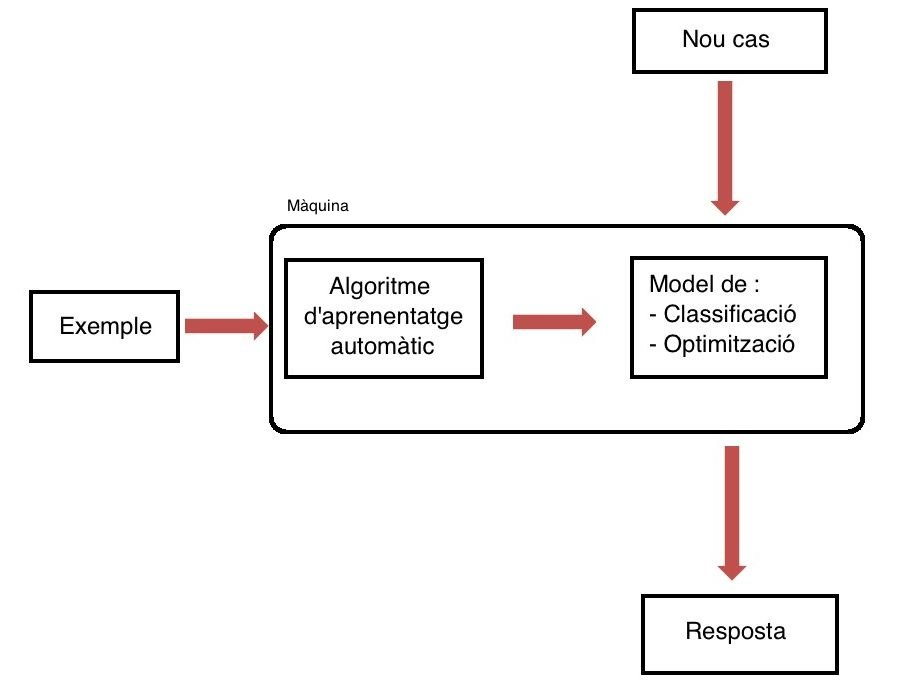 aprenentatge automàtic